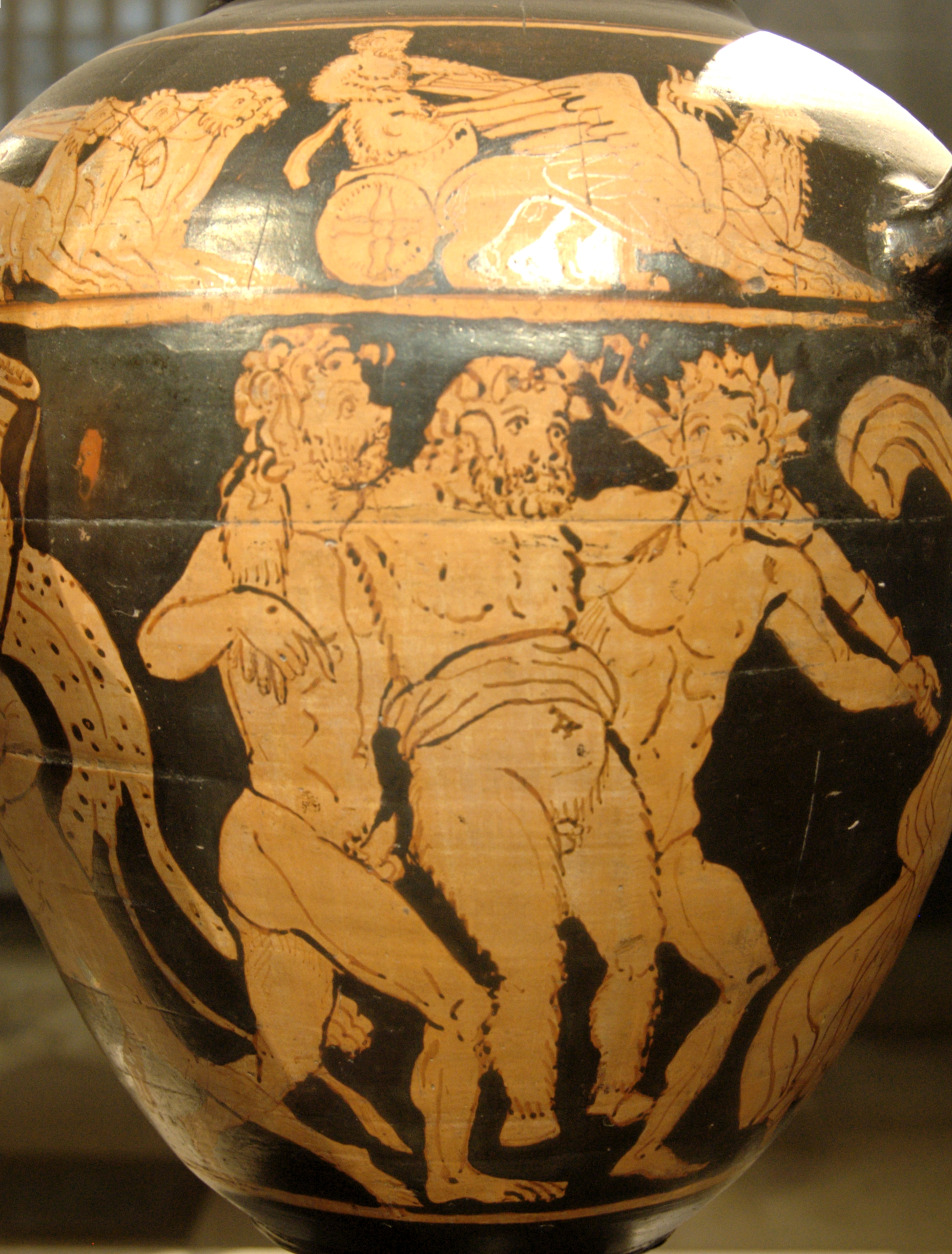 Drunk papposilenus supported by two young men. Top: thiasos. Etruscan red-figure stamnos (from a pair known as “Fould stamnoi”), ca. 300 BC. From Vulci.